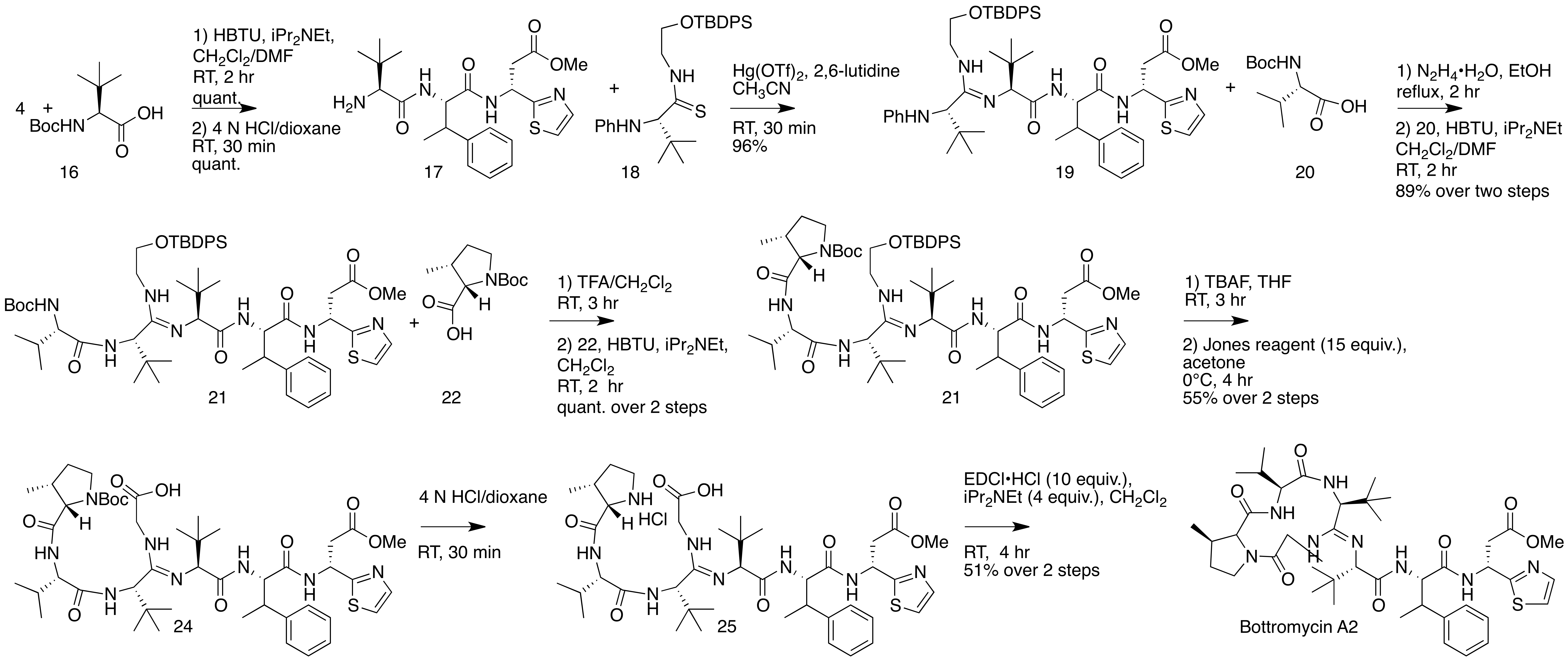 The second part of the total synthetic scheme reported by Shimamura et al.